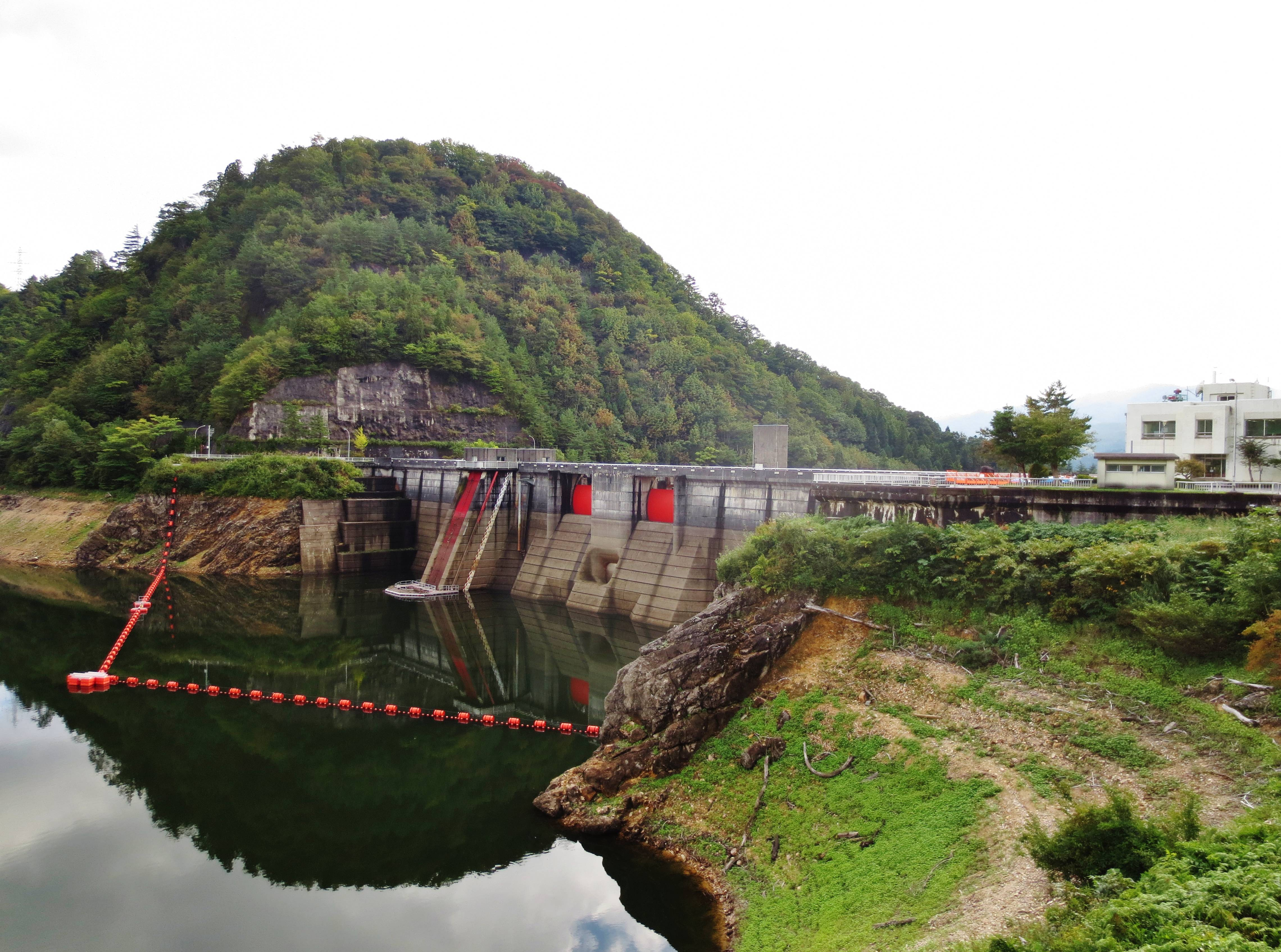 Uchinokura Dam.